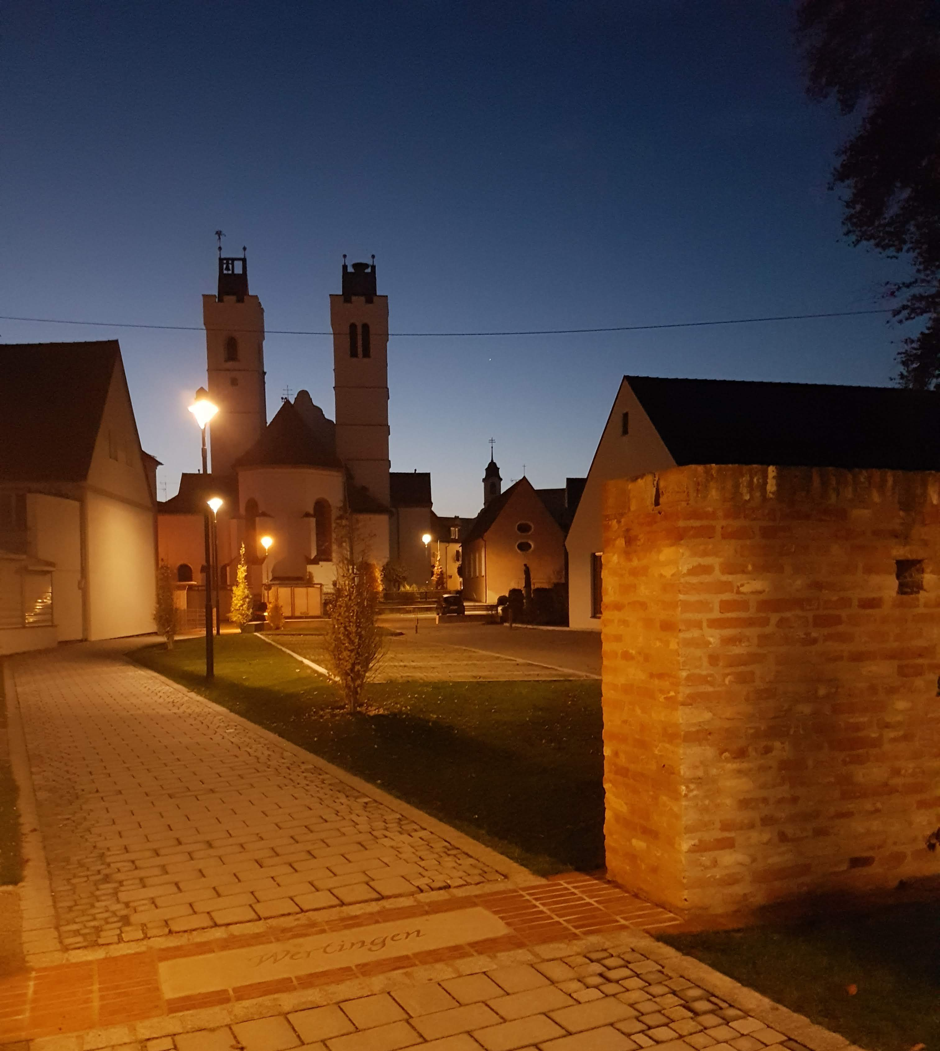 City of Wertingen